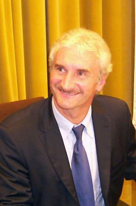 Description: Rudi Völler * Photographer: Tobias Koch (ToKo) * Date: August 2002